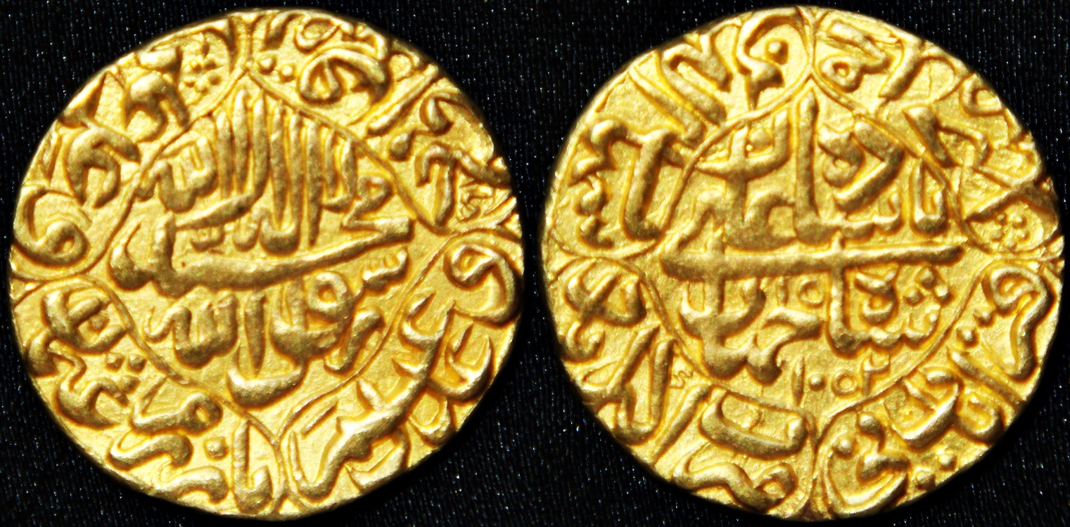 Shah Jahan, Gold Mohur, Akbarabad, 10.88g, AH 1052, RY 15, Quatrefoil type